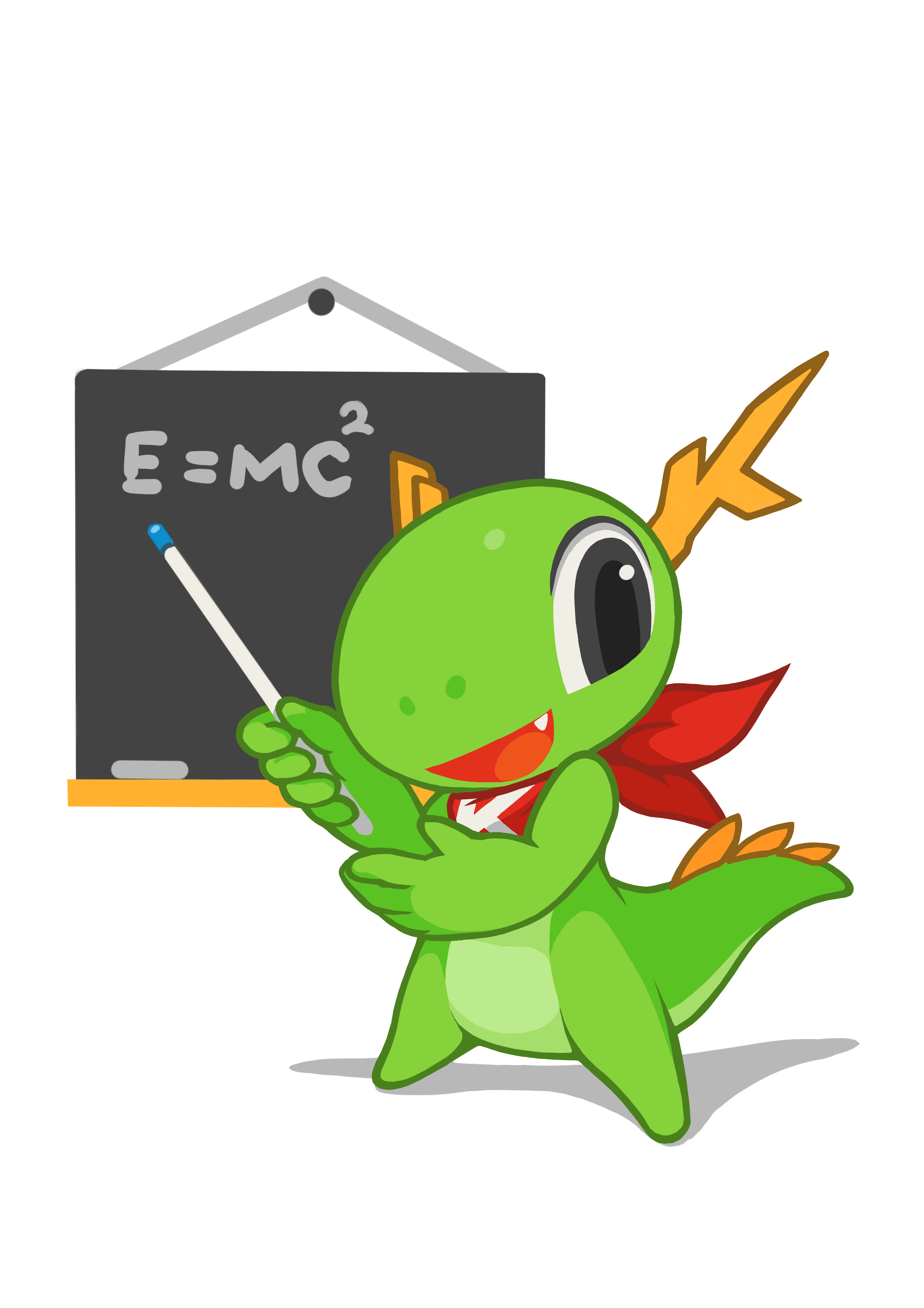 KDE mascot Konqi for presentation and education applications.